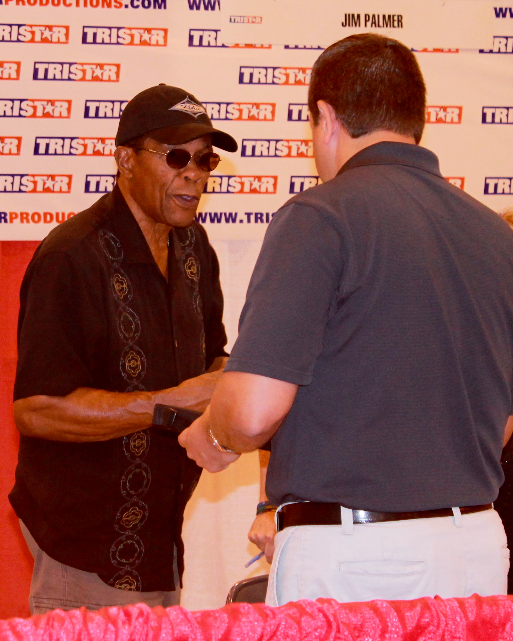 Former Major League Baseball player Rod Carew (left) talks to a fan at a sports collectors show in Houston in May 2014.